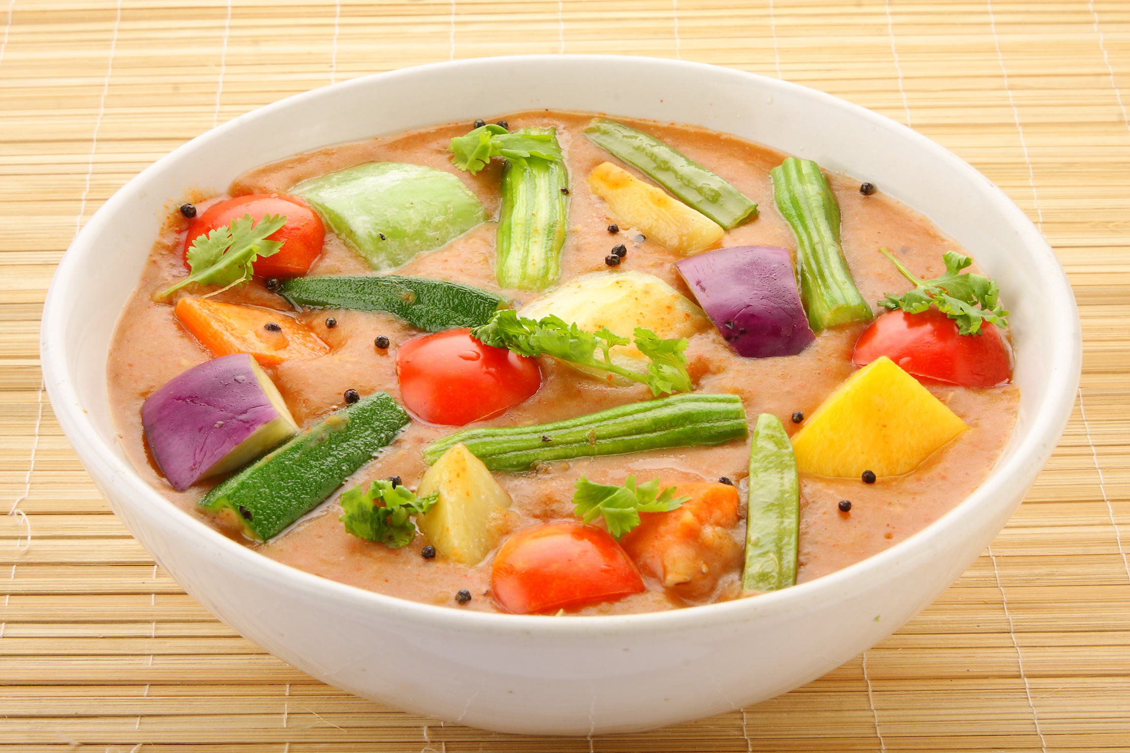 Sambar is a lentil based vegetable stew or chowder based on a broth made with tamarind popular in South India